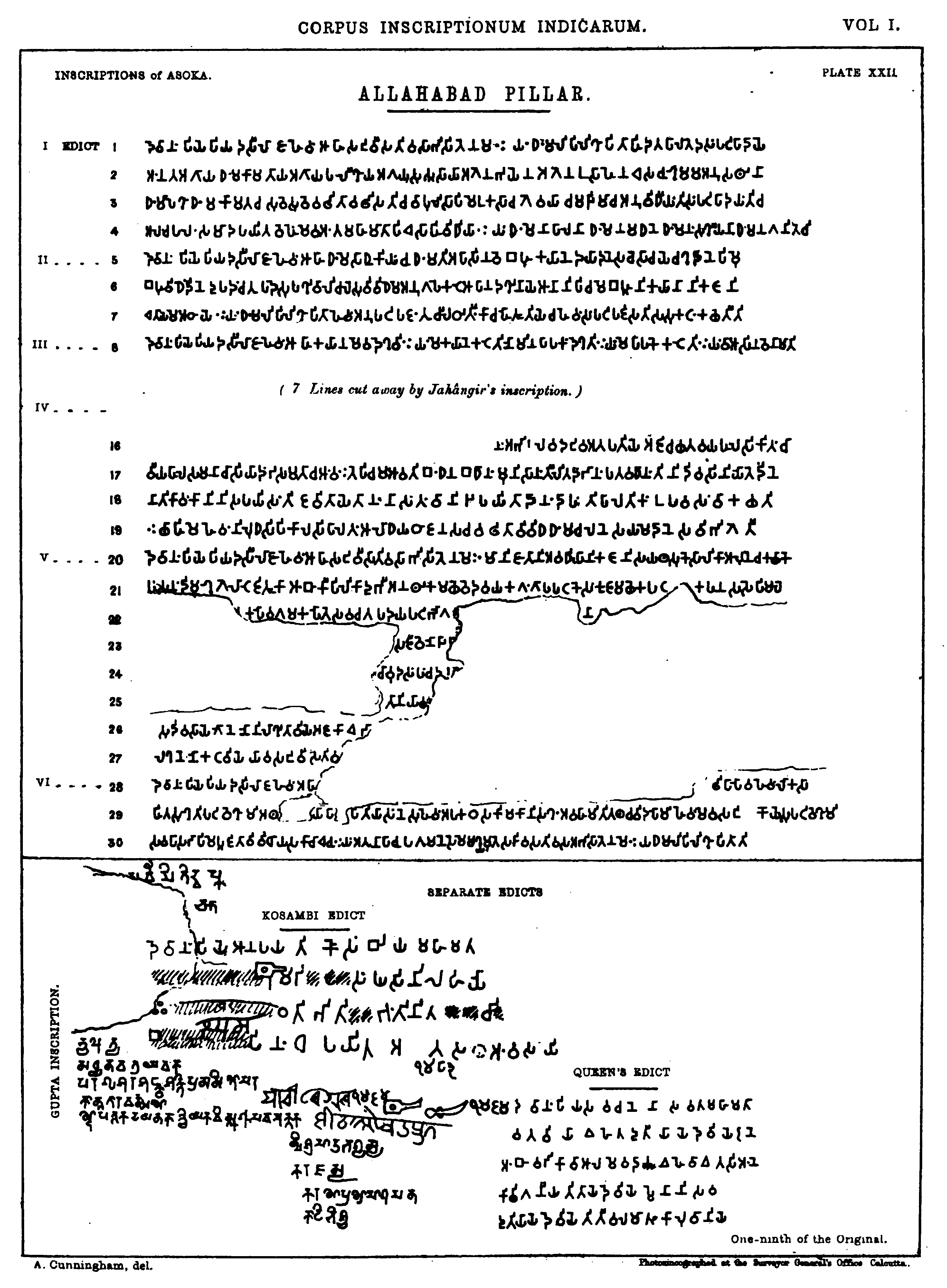 Ashoka's Pillar Edict at Allahabad.